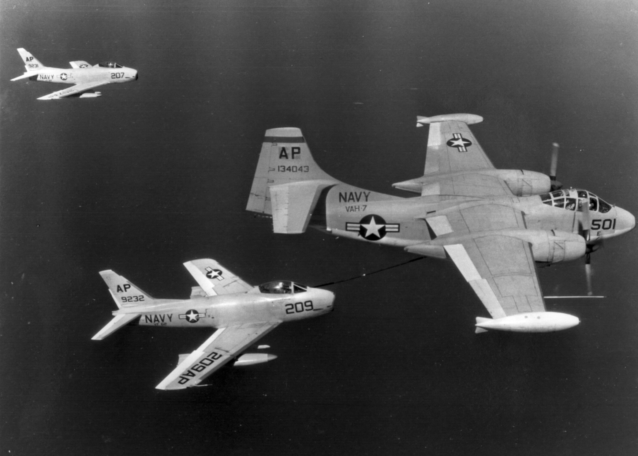 A U.S. Navy North American AJ-2 Savage (BuNo 134043) of Heavy Attack Squadron VAH-7 Det.45 Peacemakers of the Fleet refueling North American FJ-3M Fury fighters (BuNo 139232, 139231) from Fighter Squadron VF-62 Boomerangs. VF-62 and VAH-7 were assigned to Air Task Group 201 (ATG-201) aboard the aircraft carrier USS Essex (CVA-9) for a deployment to the Mediterranean Sea, the Indian Ocean and the Western Pacific from 2 February to 17 November 1958.